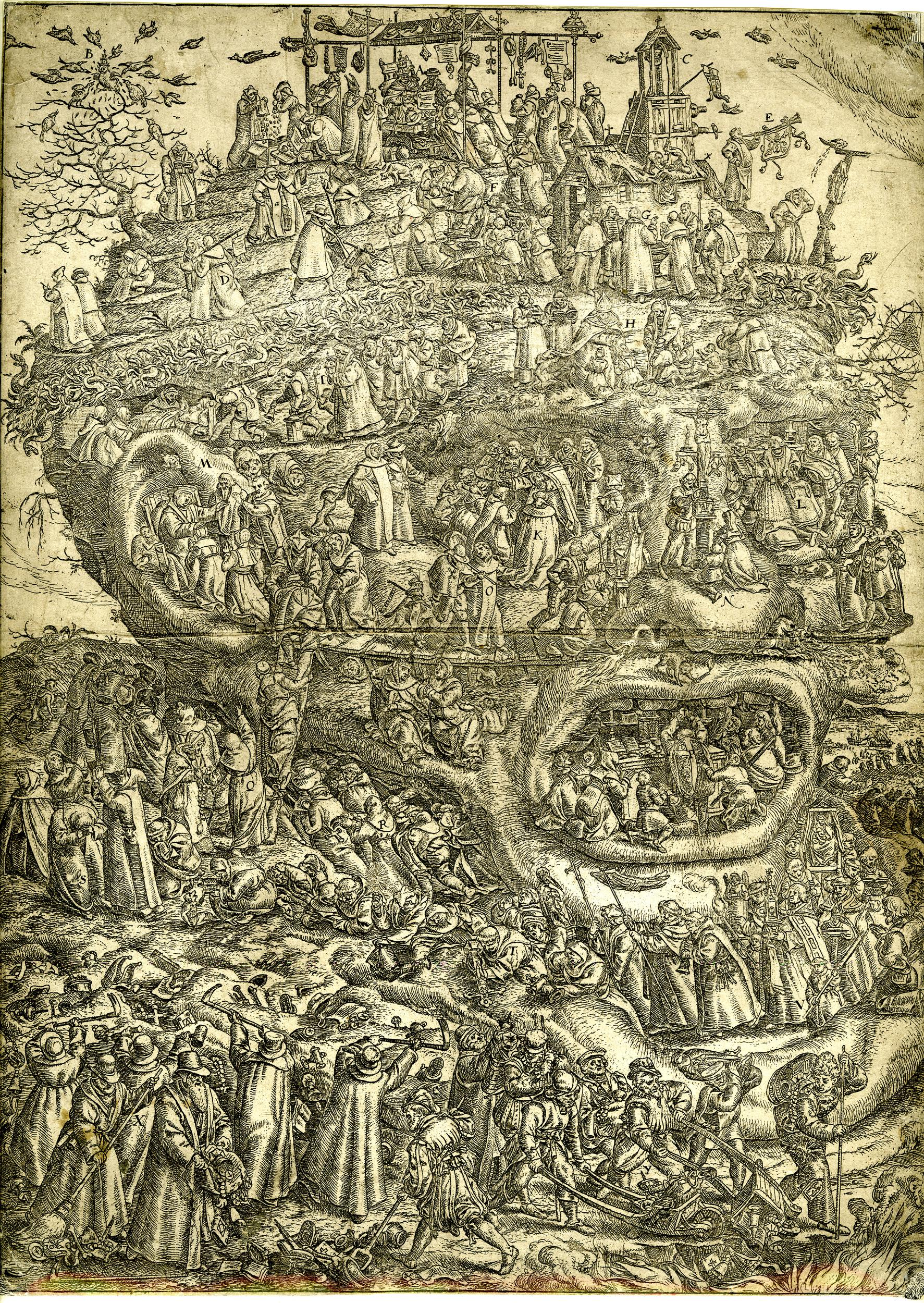 Composite rotting head of a monk representing an allegory of iconoclasm; the head emerges from a rocky outcropping, infested with little figures who swarm over it; a diabolical mass is being conducted inside the gaping mouth, and on the pate sits a figure of the pope enthroned beneath a canopy with indulgences pinned up on the staves; various rituals and processions take place and are labelled with letters; in the foreground Protestant iconoclasts are clearing up bits of altarpieces, religious sculptures, sundry vanities and other church paraphernalia and tipping them into a fire